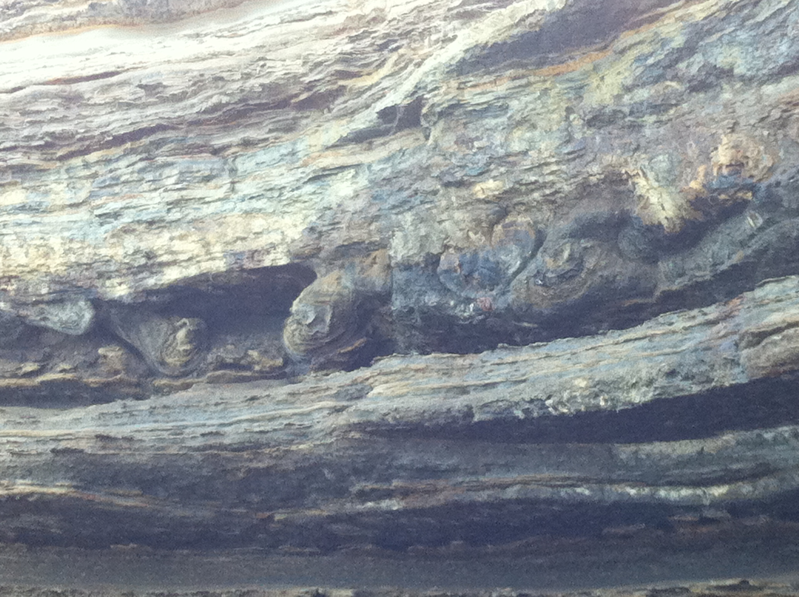 Ball and Pillow Geological Structure from Merry Beach, (Snapper Point Formation), South coast NSW, Australia